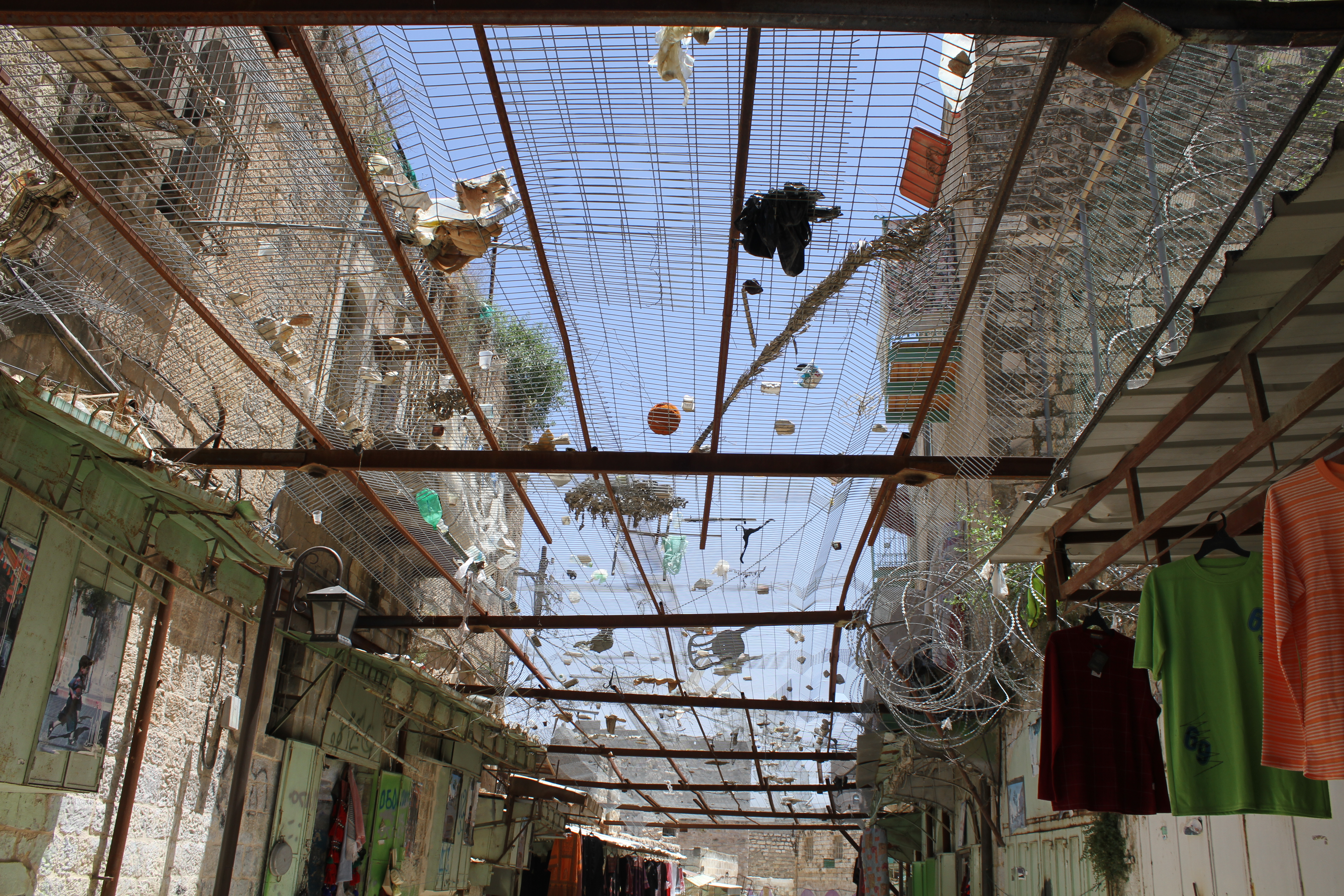 Wire ceilings have been put up over the market to protect Palestinians from rubbish thrown on them from the settlers living in the colonized houses above.